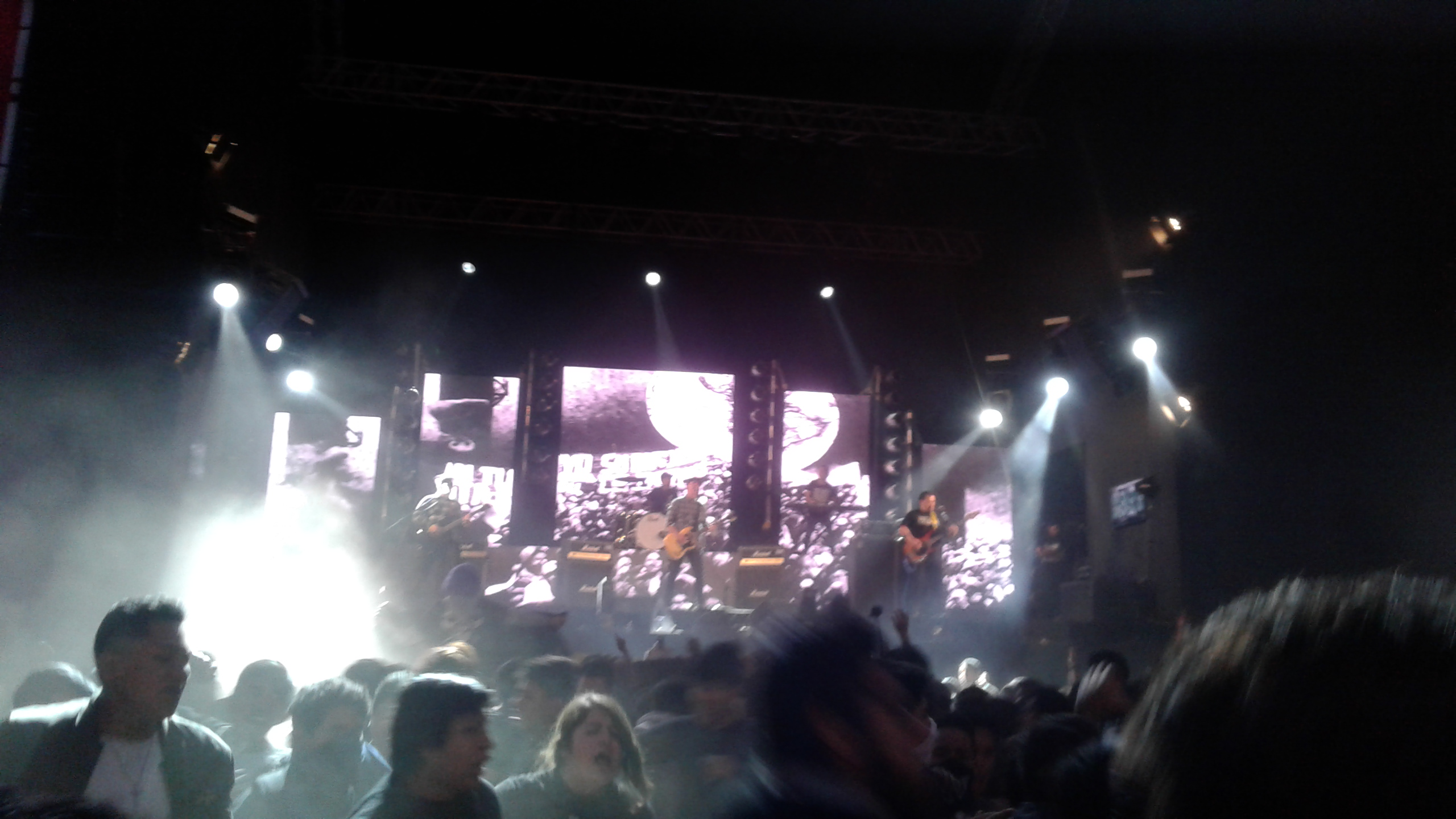 Pogo in concert rock.